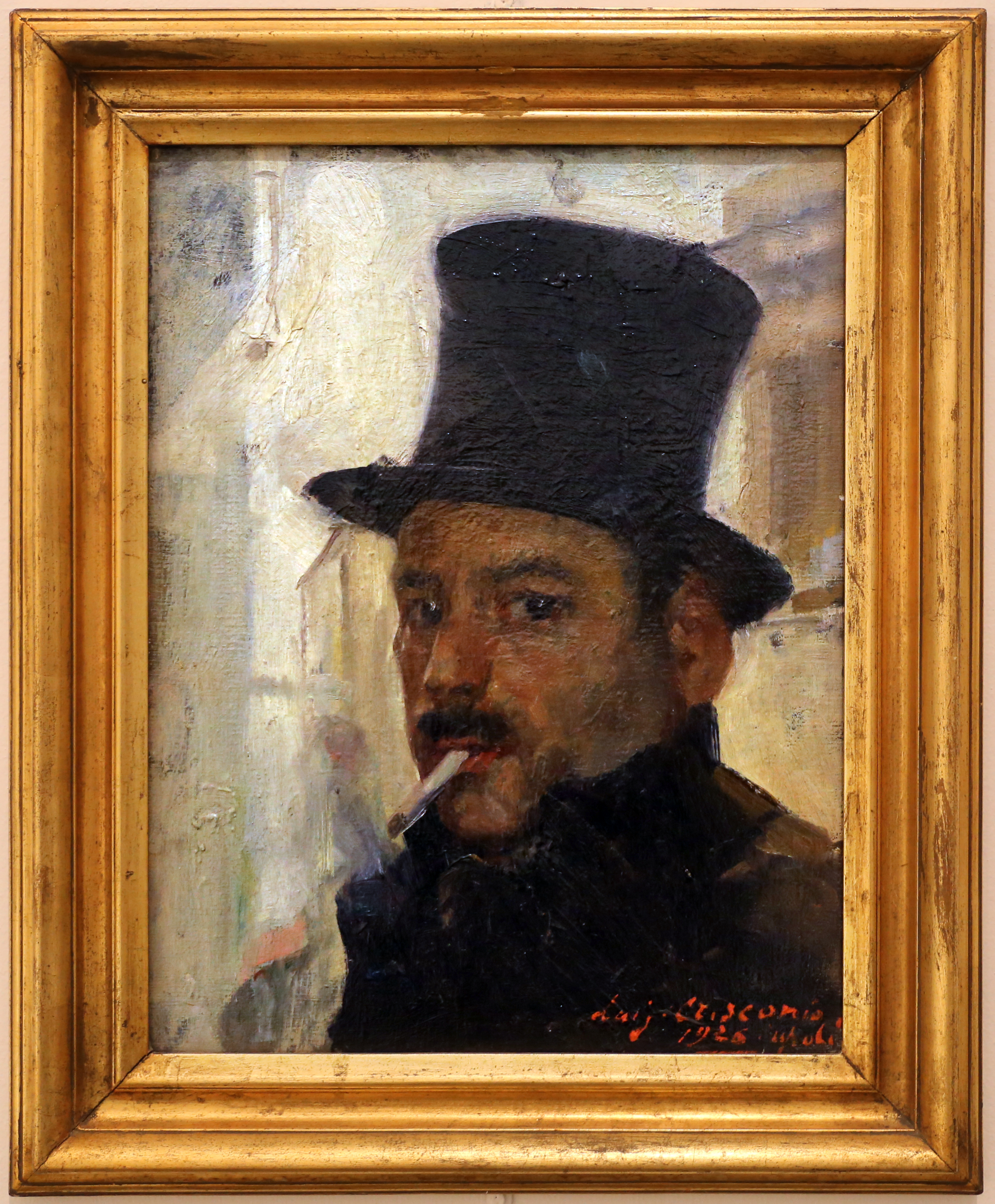 Museo Napoli Novecento